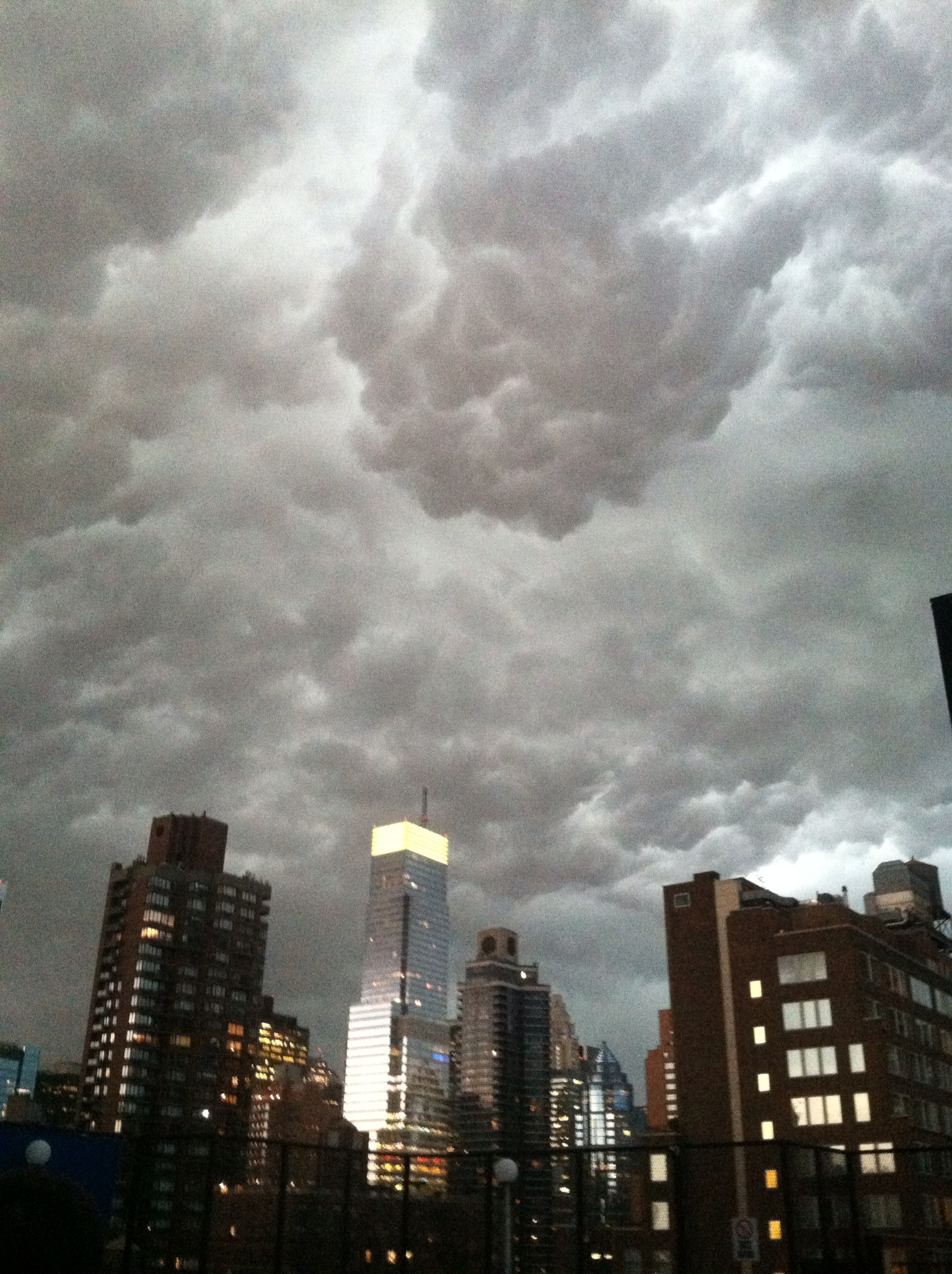 Thunder storm in manhattan, NY